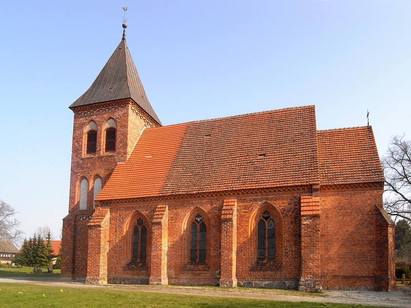 Church in Kritzkow, district Güstrow, Mecklenburg-Vorpommern, Germany